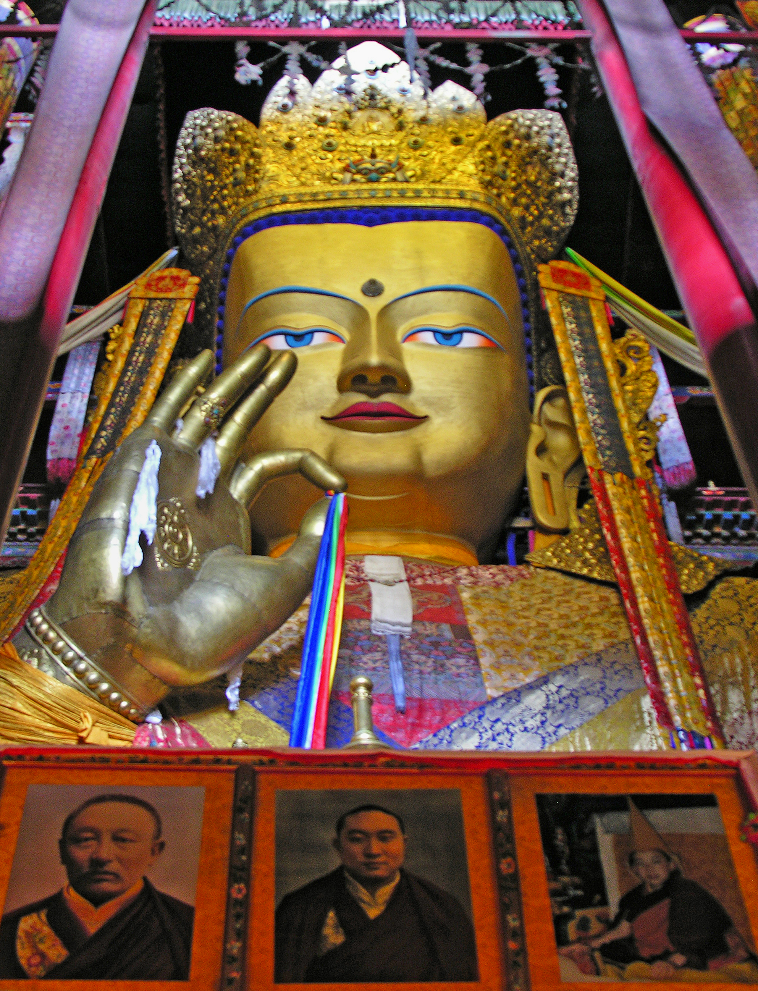 Tashilhunpo Monastery in Shigatse, Tibet, is one of the Six Big Monasteries of Gelugpa (or Yellow Hat Sect) in Tibet. This is the biggest statue of a sitting Maitreya Buddha in the world inside the Maitreya Chapel. The statue stands 26.2 meters (86 ft) high and is decorated with gold, copper, pearl, amber, coral, diamond and other precious stones. The statue was handcrafted by 900 craftsmen in 9 years. It required 3,100 meters of cloth to dress the Buddha. The pictures in front are of two past Panchen Lamas and an unknown young lama.